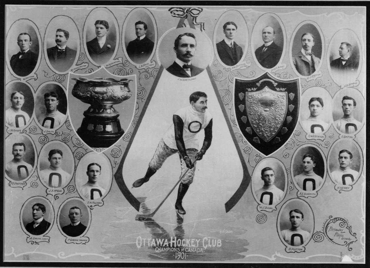 Photograph of Ottawa Hockey Club, 1901 Canadian champions